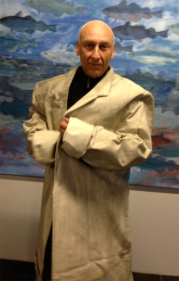 Nikolaus A. Nessler at the Installation "Sharks around", Exhibition cabinet at Frankfurt Taunusanlage station, 2015